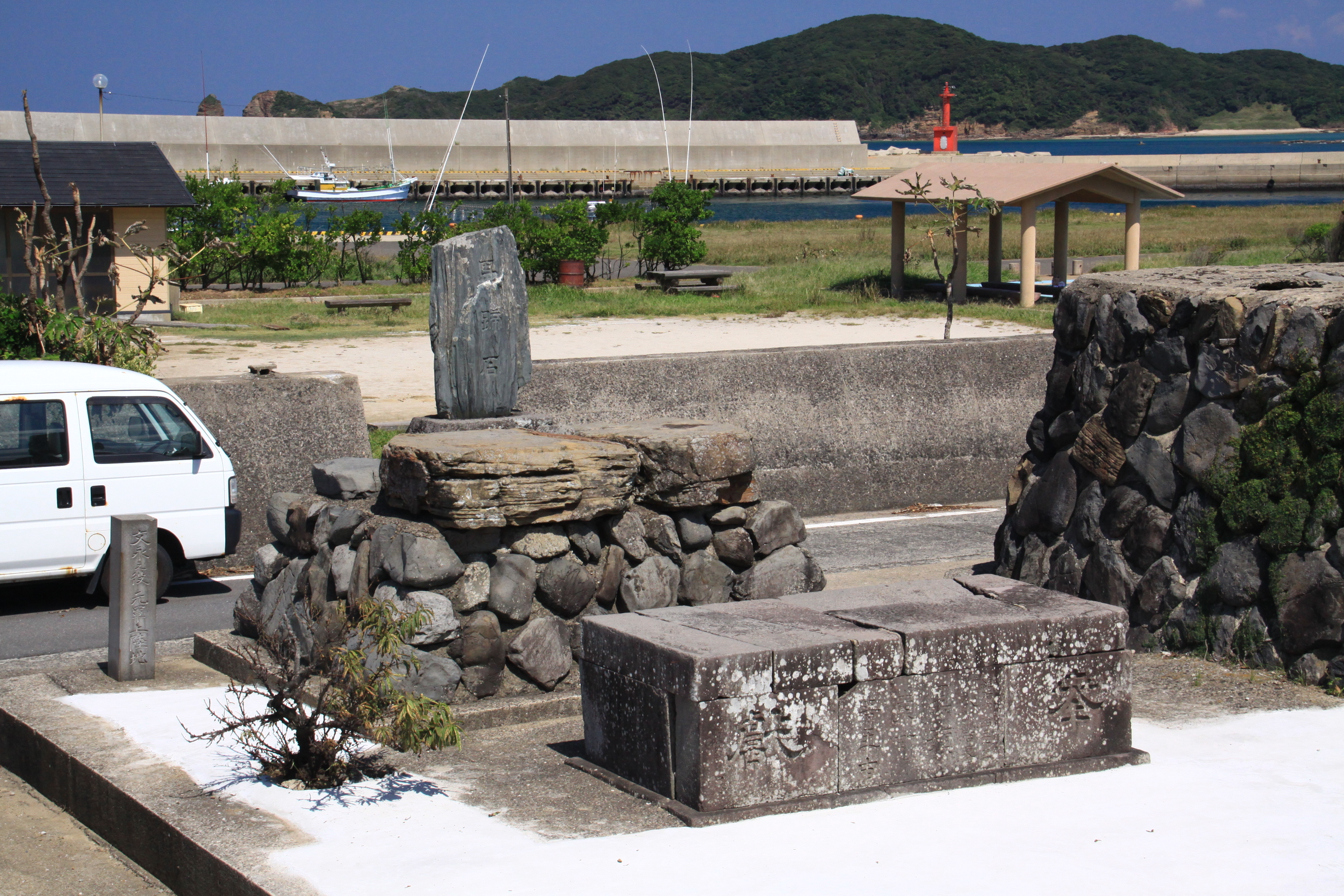 Bateiseki. The footprint when Empress Jingū rides on a horse remains on this stone. This is also the place at which the Mongolian army landed Iki-island on the occasion of Invasions.